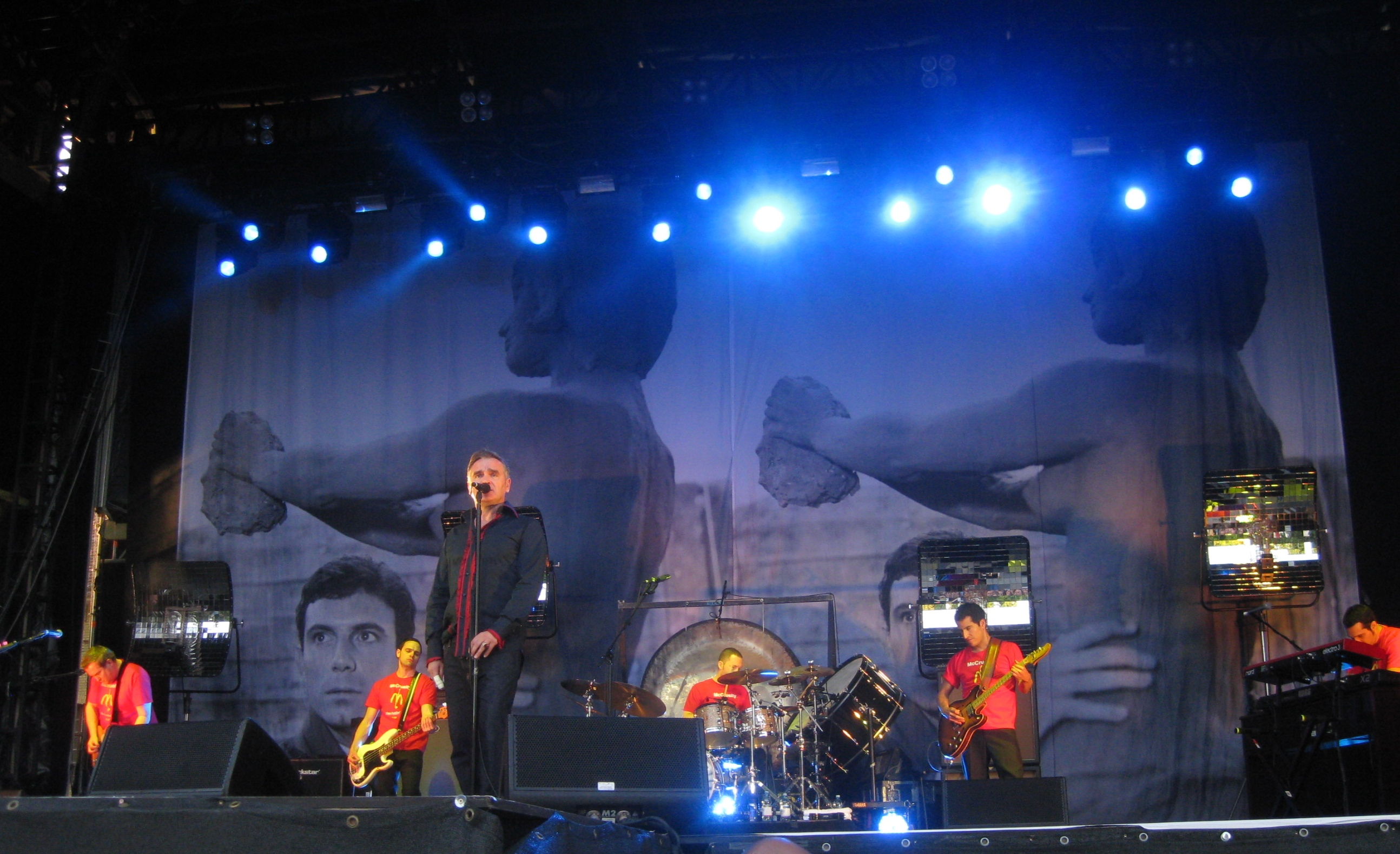 Zitadelle Spandau / Berlin / 18th July 2011